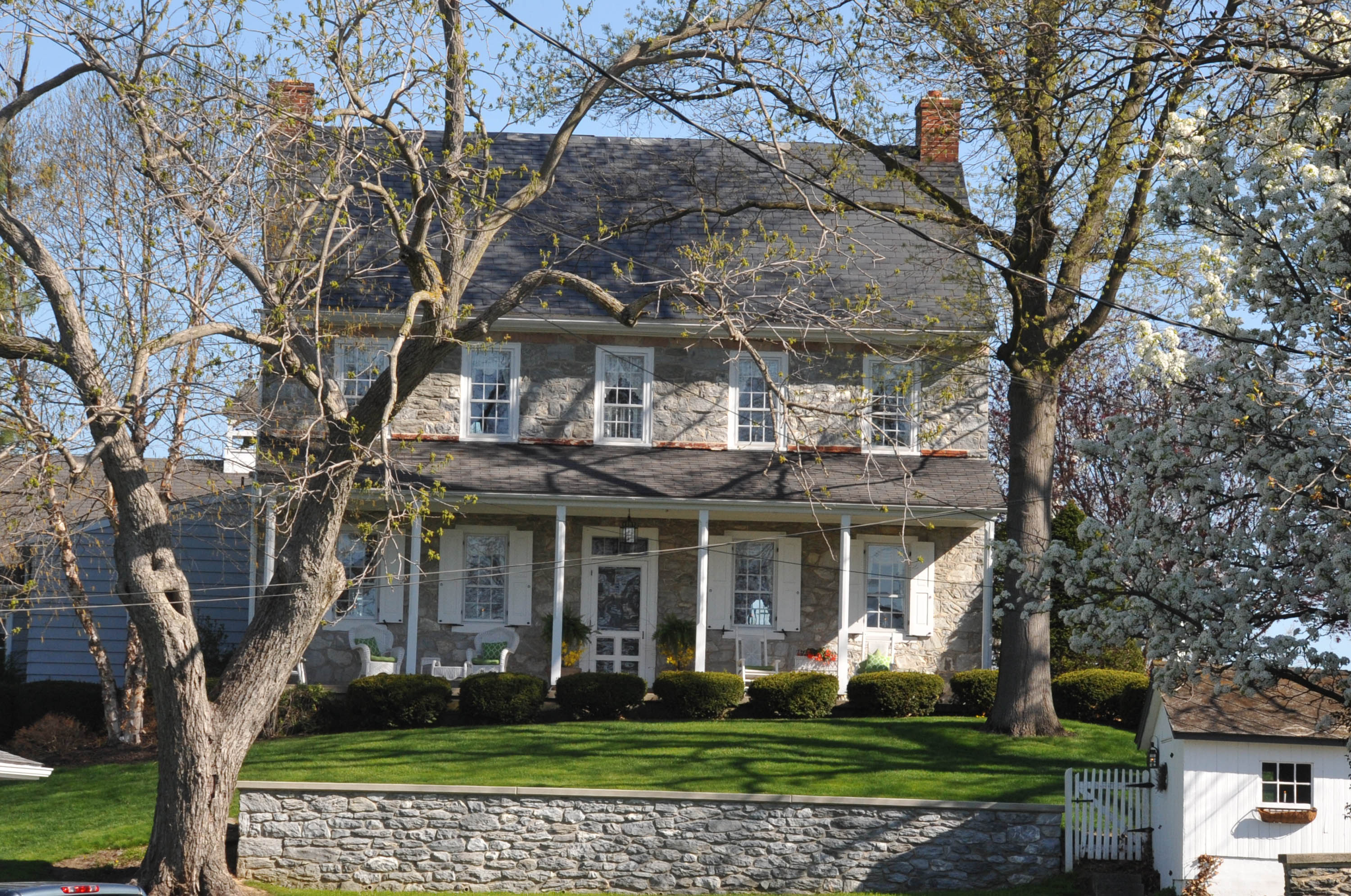 FARMHOUSE BUILT CIRCA 1780 IN FEDERAL STYLE. COMPLEX CONSISTS OF 12 CONTRIBUTING BUILDINGS WITH A VERY PROMINENT MILL AND FORMER TAVERN - ALL EARLY 1800'S